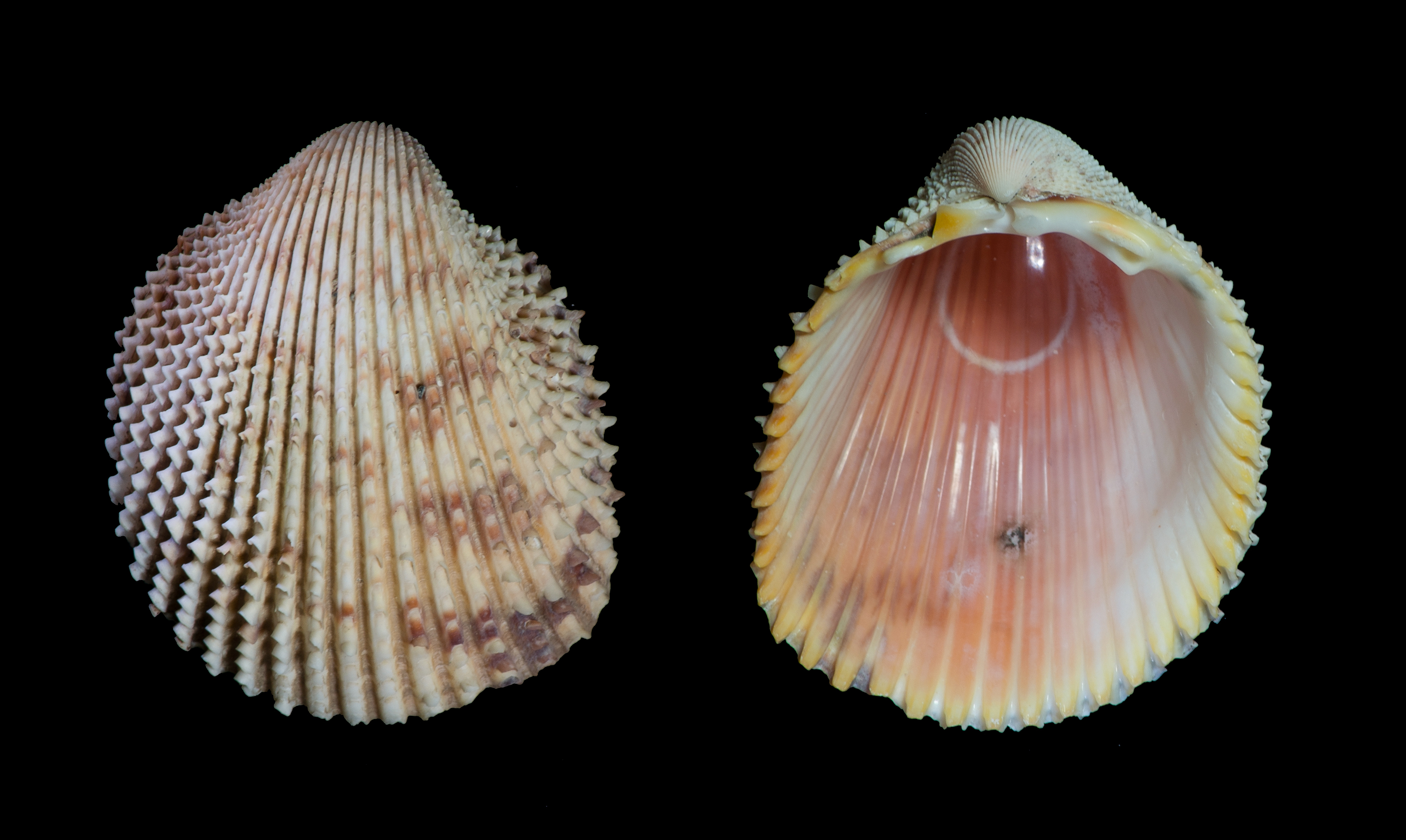 Trachycardium isocardia from La Restinga Bay, Margarita island